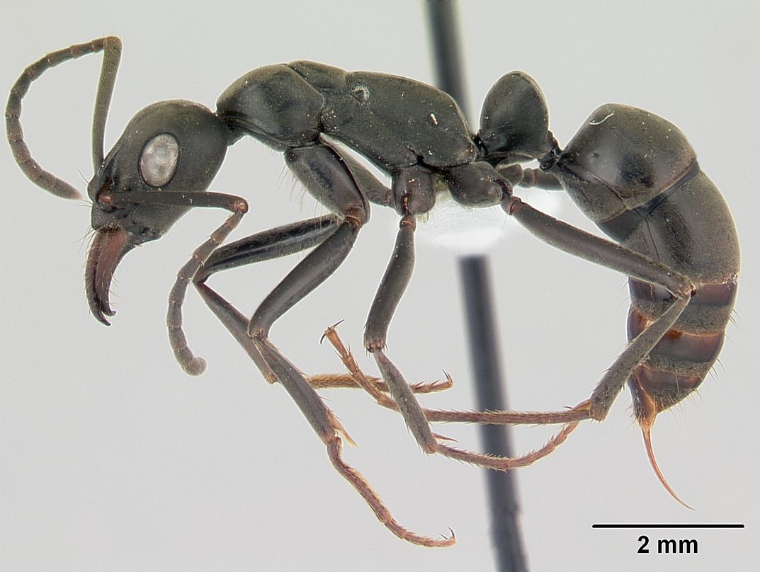 Profile view of ant Pachycondyla verenae specimen casent0178187.